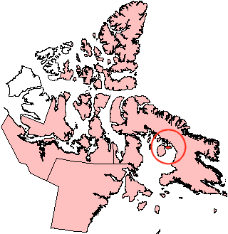 Base image created by Keith Edkins as GFDL, modified by Tim Vasquez.